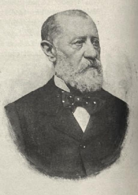 Antal Zichy